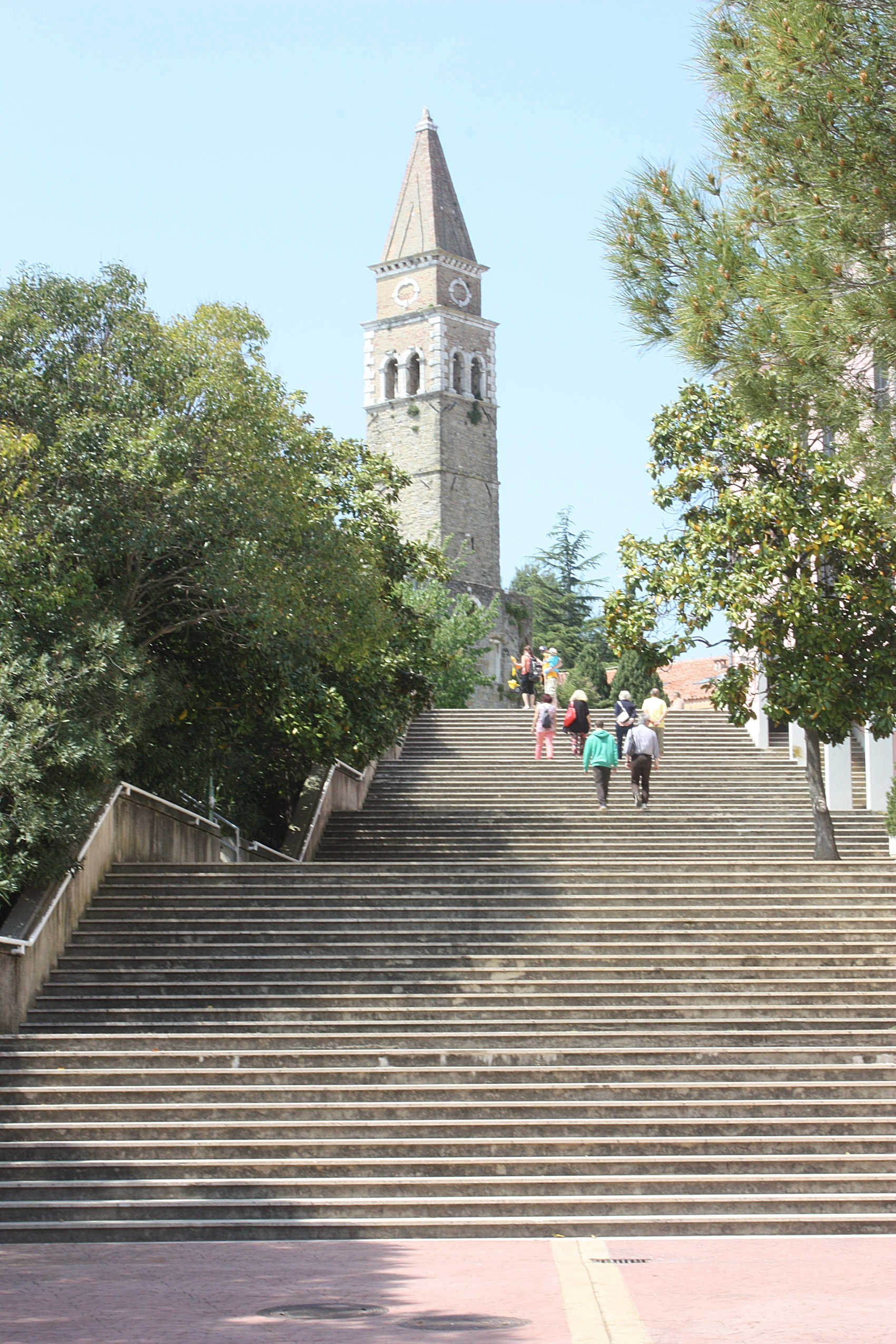 Portorož, staircase to the church St. Bernard of Siena